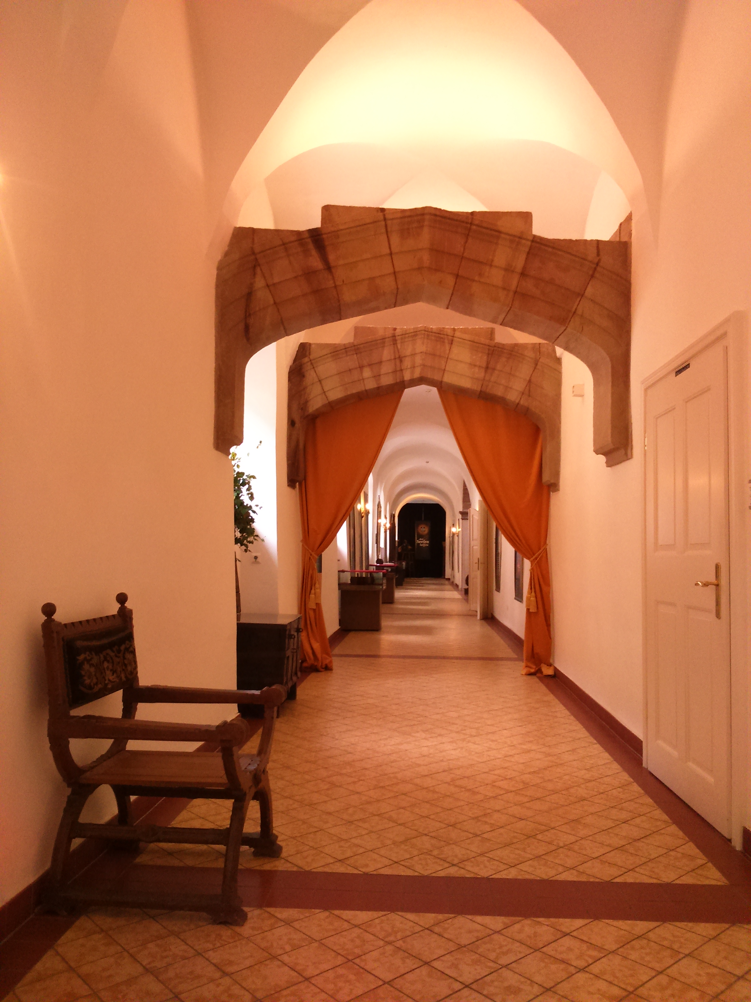 Corridor in the Eichsfeldmuseum